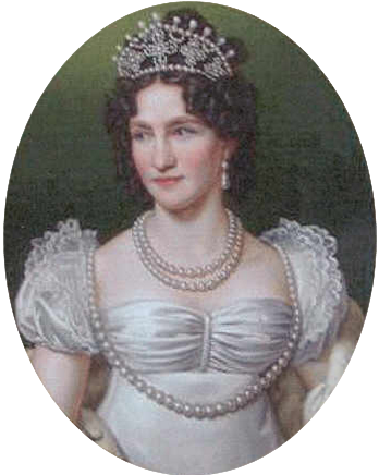 Princess Charlotte Auguste of Bavaria, 1792-1873, from 1808 to 1814 first wife of Crown Prince William I of Württemberg (divorced). From 1816 Empress of Austria, as fourth wife of Emperor Franz I of Austria.